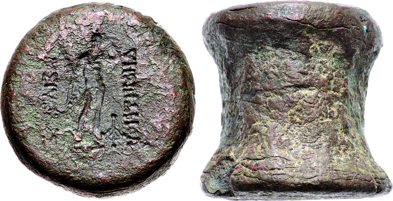 Reverse Die for a Tetradrachm of Demetrios I